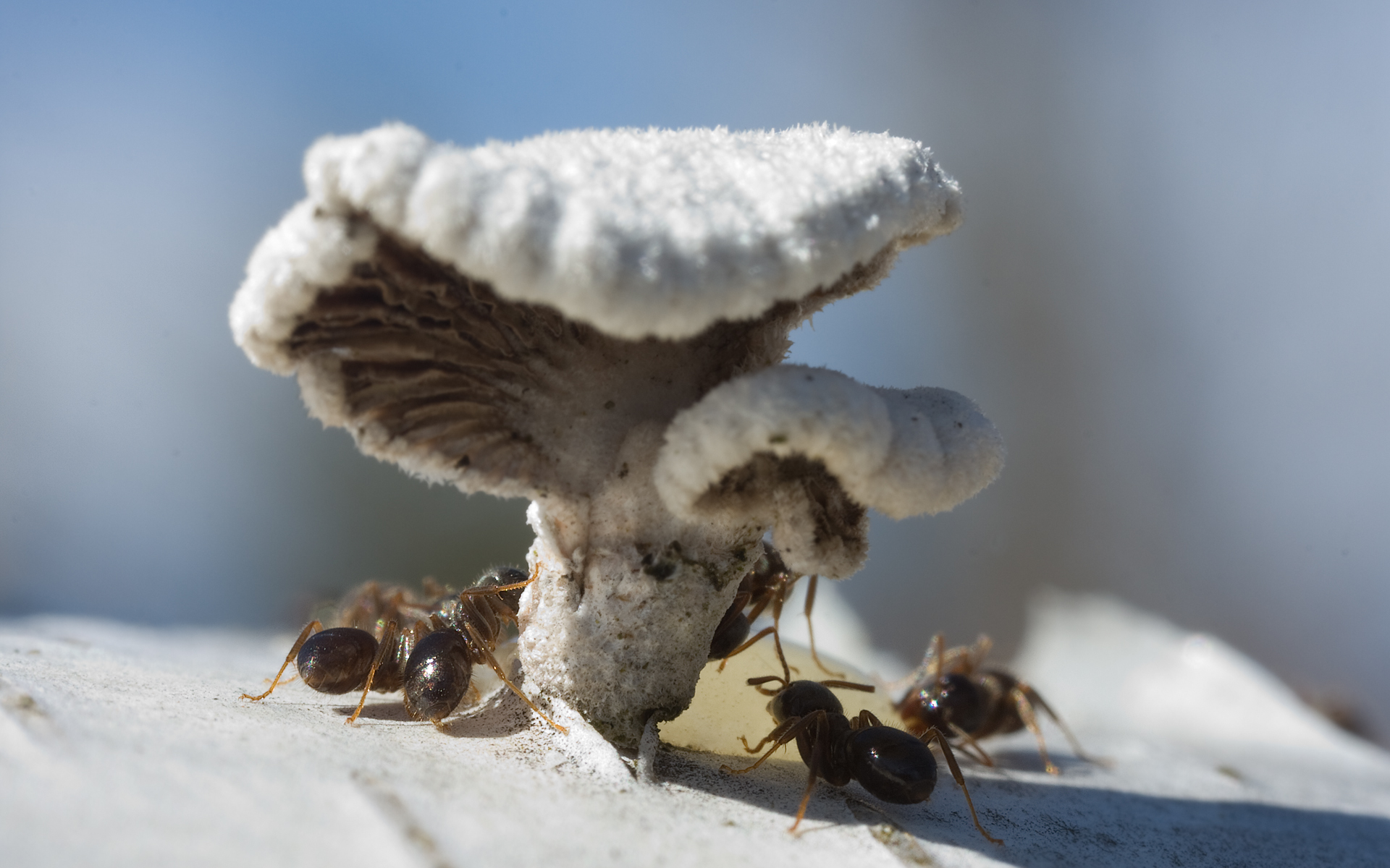 Formica polyctena is a species of European red wood ant in the family Formicidae.